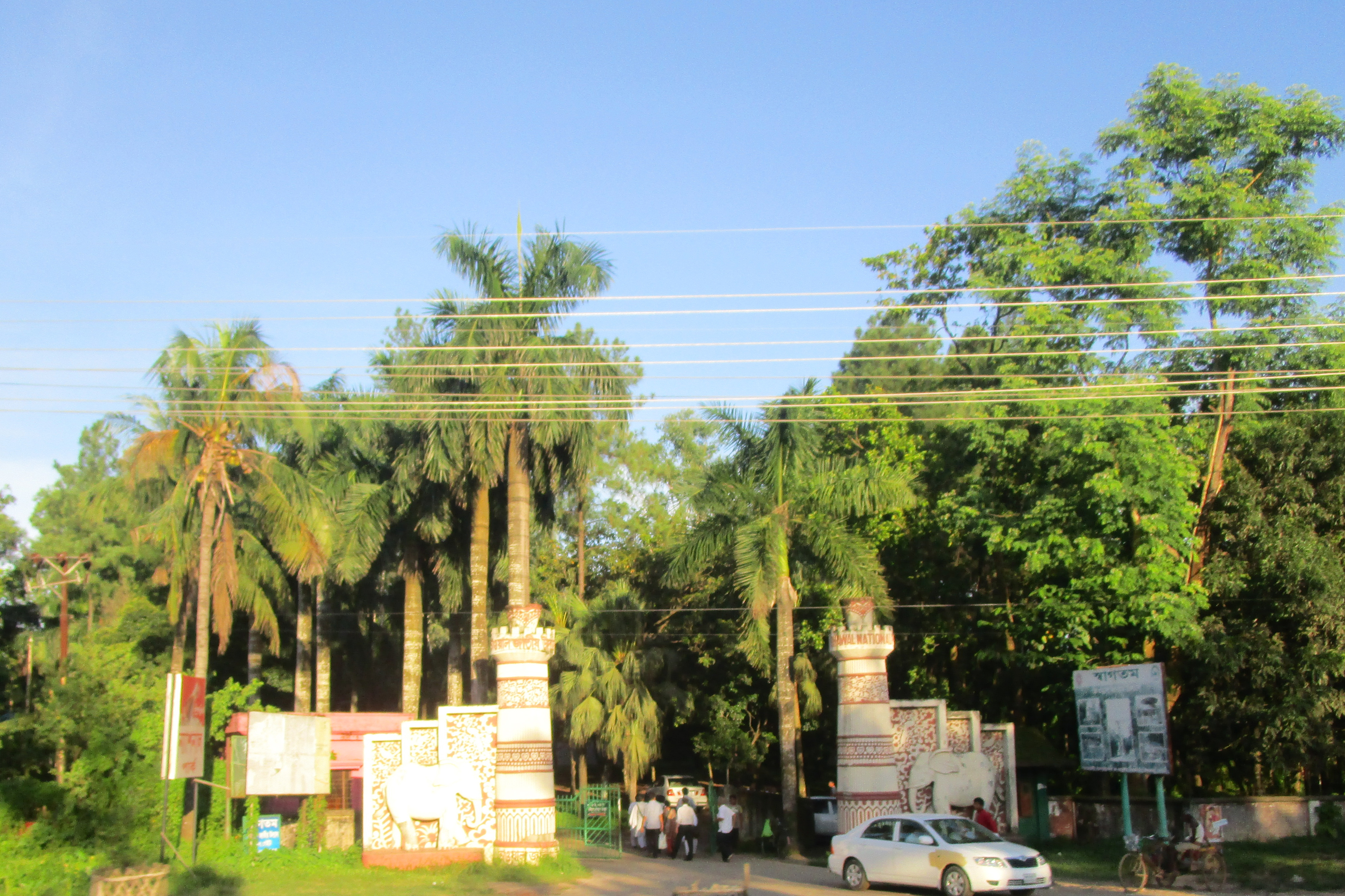 Bhawal National Park Gate